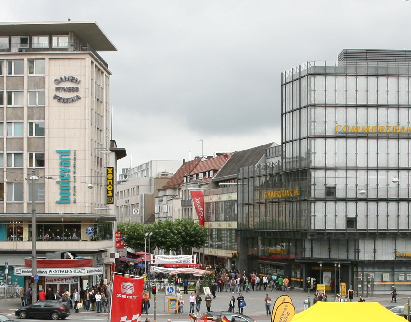 Entrance of Bahnhofstraße at Jahn Square (Jahnplatz) in Bielefeld, Germany